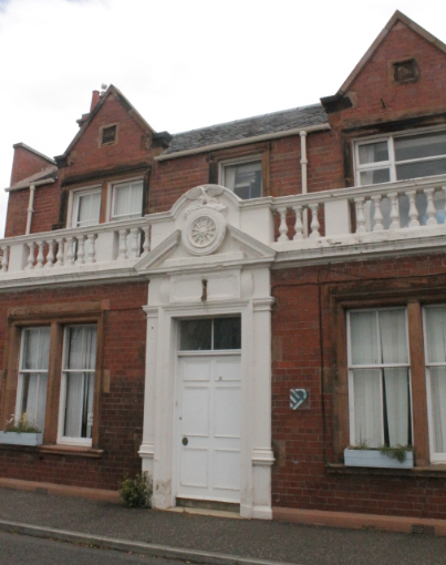 Madelvic frontage, Granton, Edinburgho